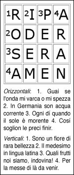 One of the oldest crosswords in the world. Published on the 14th of September 1890 in the Italian magazine "Il Secolo Illustrato della Domenica"